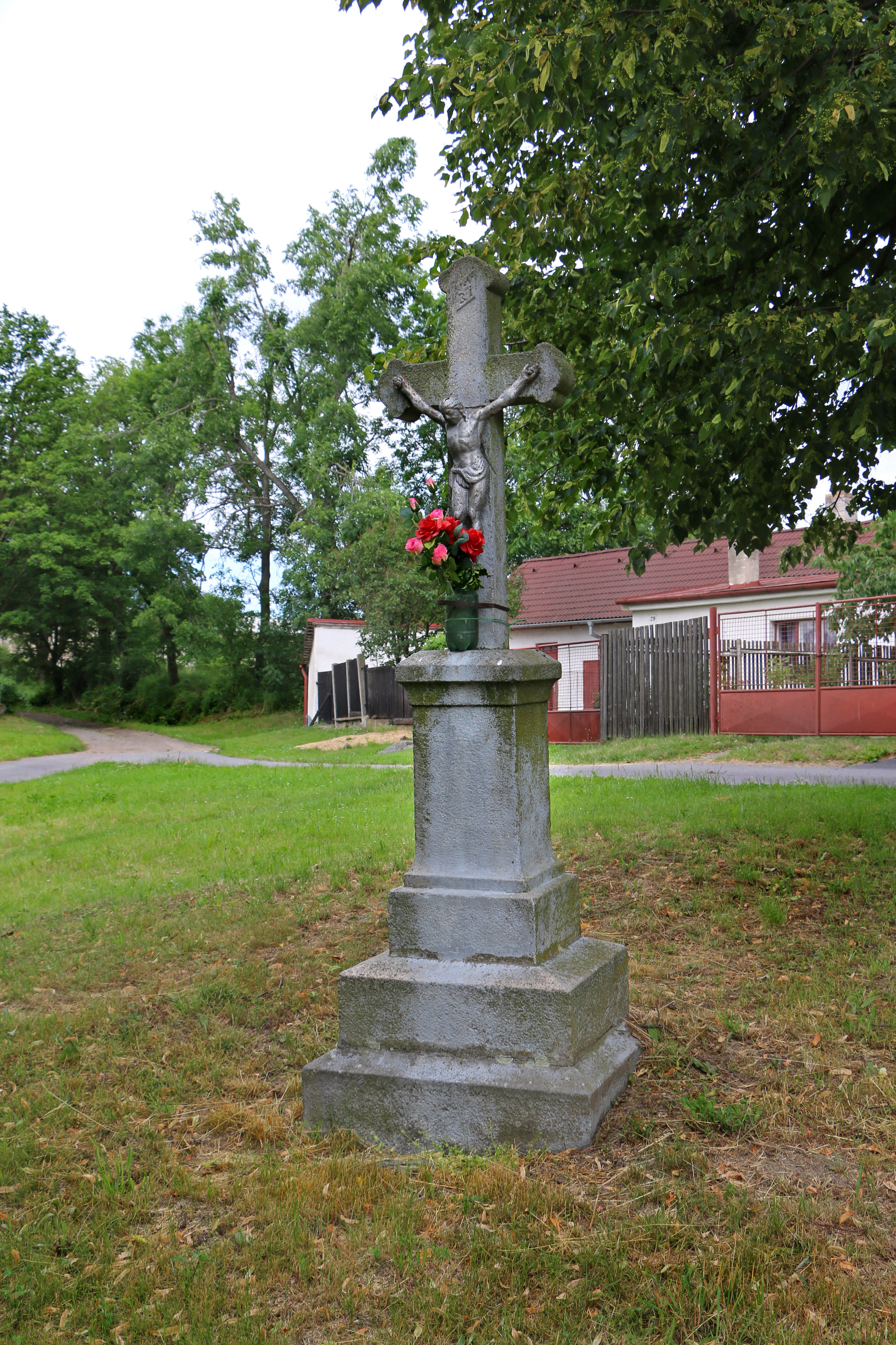 Wayside cross in Komárovice, part of Brtnice, Czech Republic.